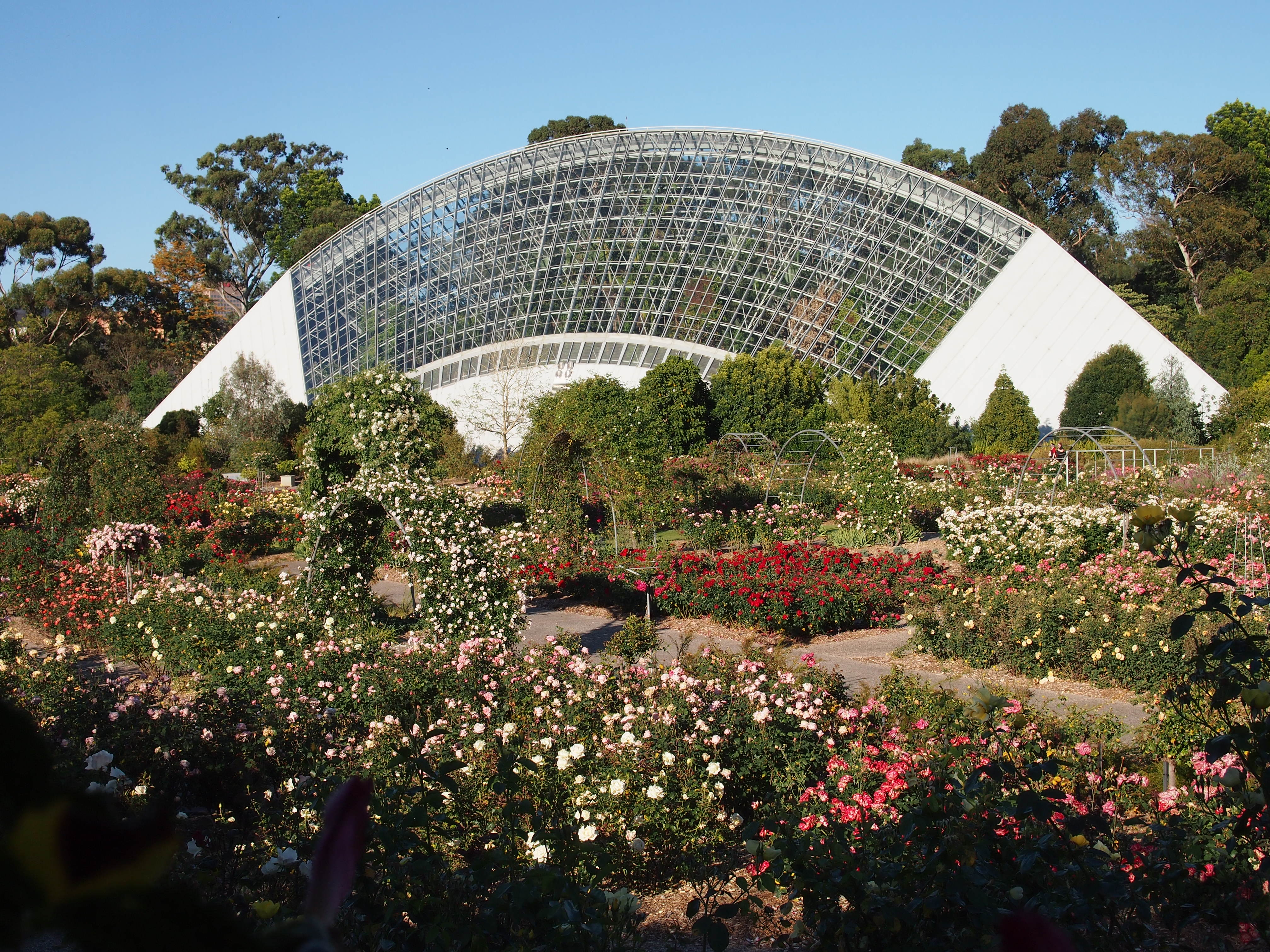 An early morning view of the rose garden at the Adelaide Botanic Garden, with the Bicentennial Conservatory in the background. Original filename = PB060439.JPG